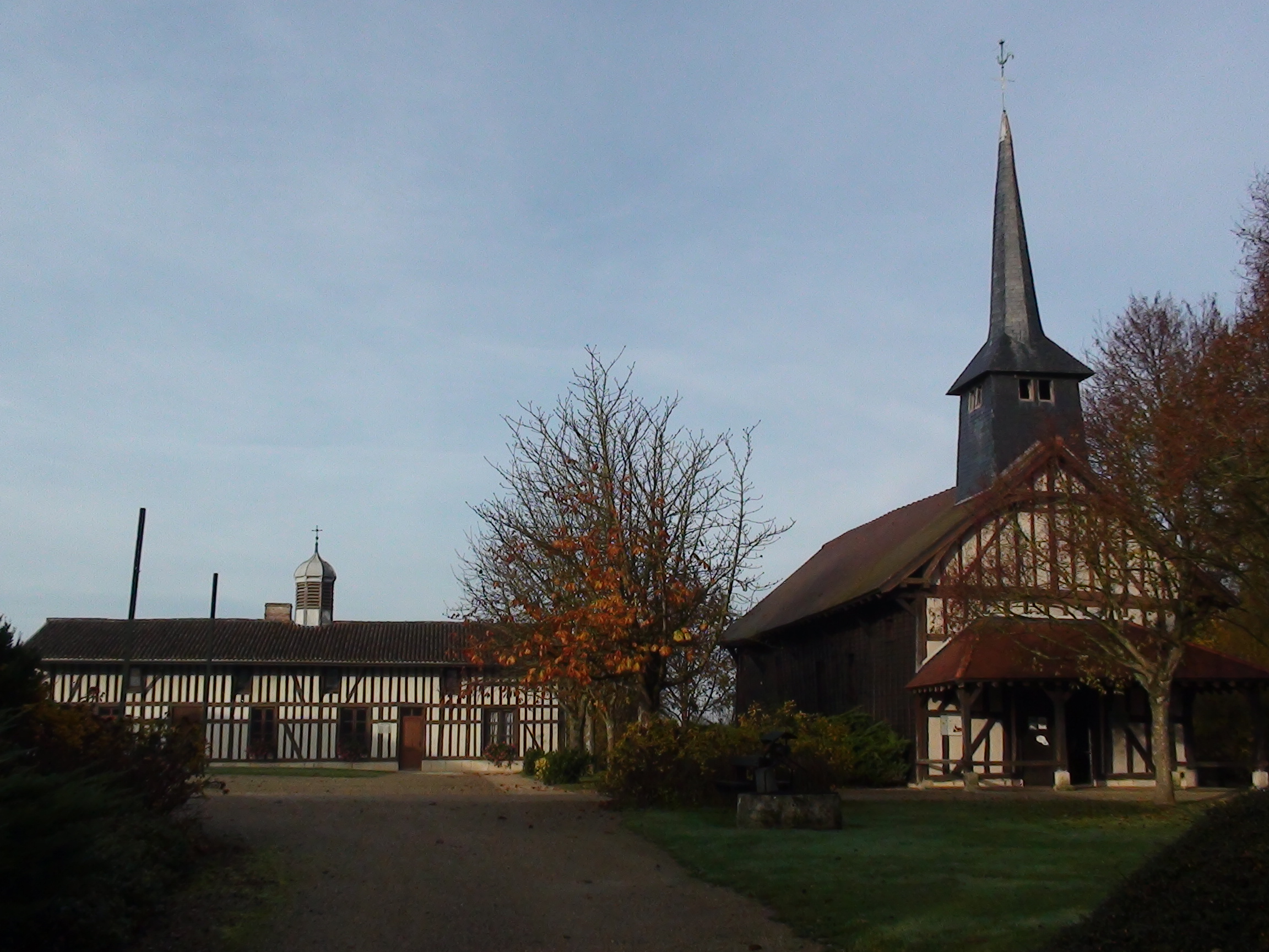 Sainte Marie du Lac Nuisement - old church in the Der village museum